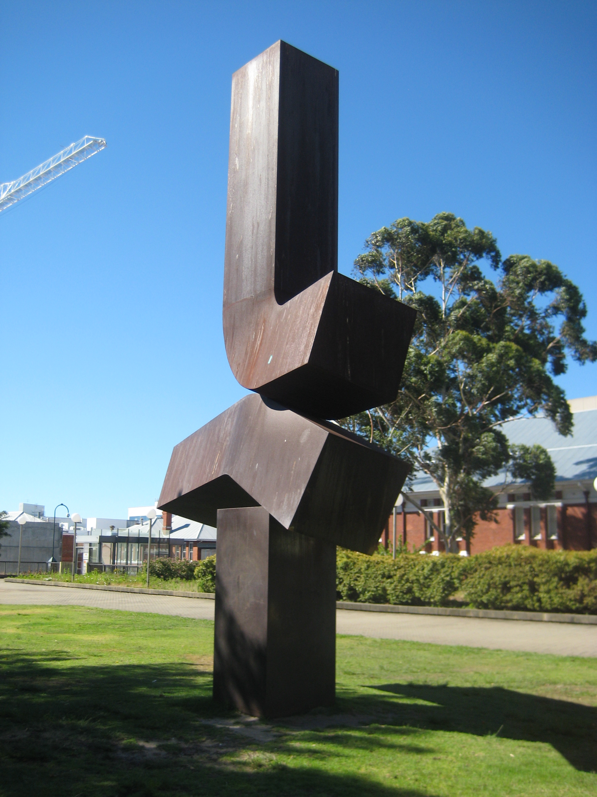 Sculpture Between (1979/80) by Clement Meadmore outside Perth Art Gallery in Perth/Australia